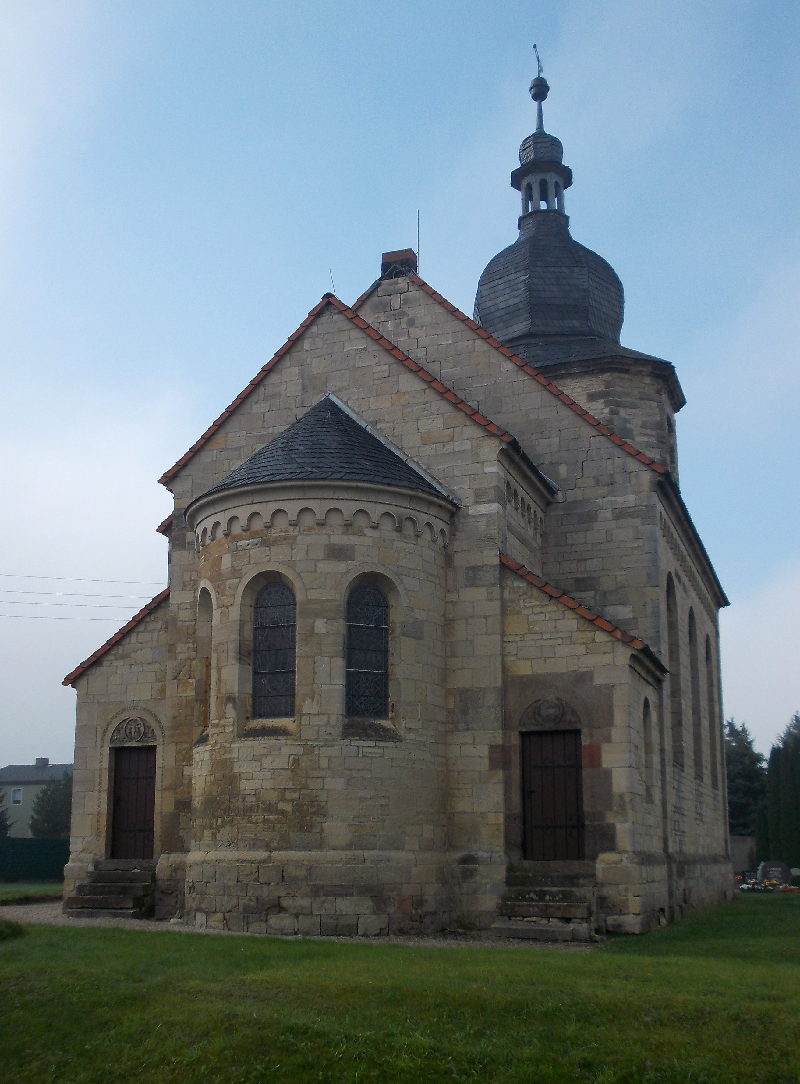 St. Pancratius' Church in Dornstedt (Teutschenthal, district: Saalekreis, Saxony-Anhalt)